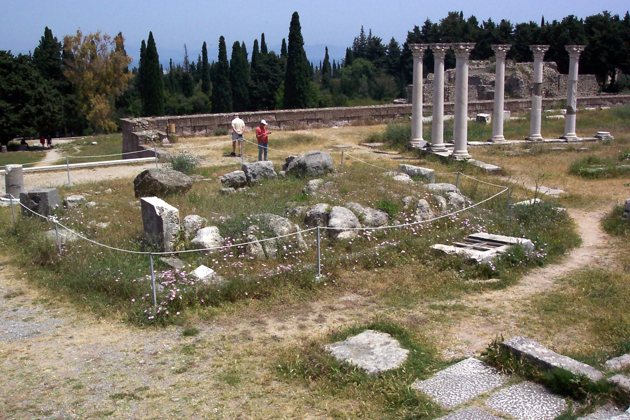 The 4th-century BCE Altar of Asclepius (roped off on the left) and the 2nd-century CE Temple of Apollo (columns on the right) on the second terrace of the Asklepion on the Greek island of Kos.